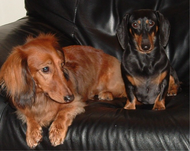 A standard long-haired dachshund ("Rapunzel") and miniature short-haired dachshund ("Dakota").